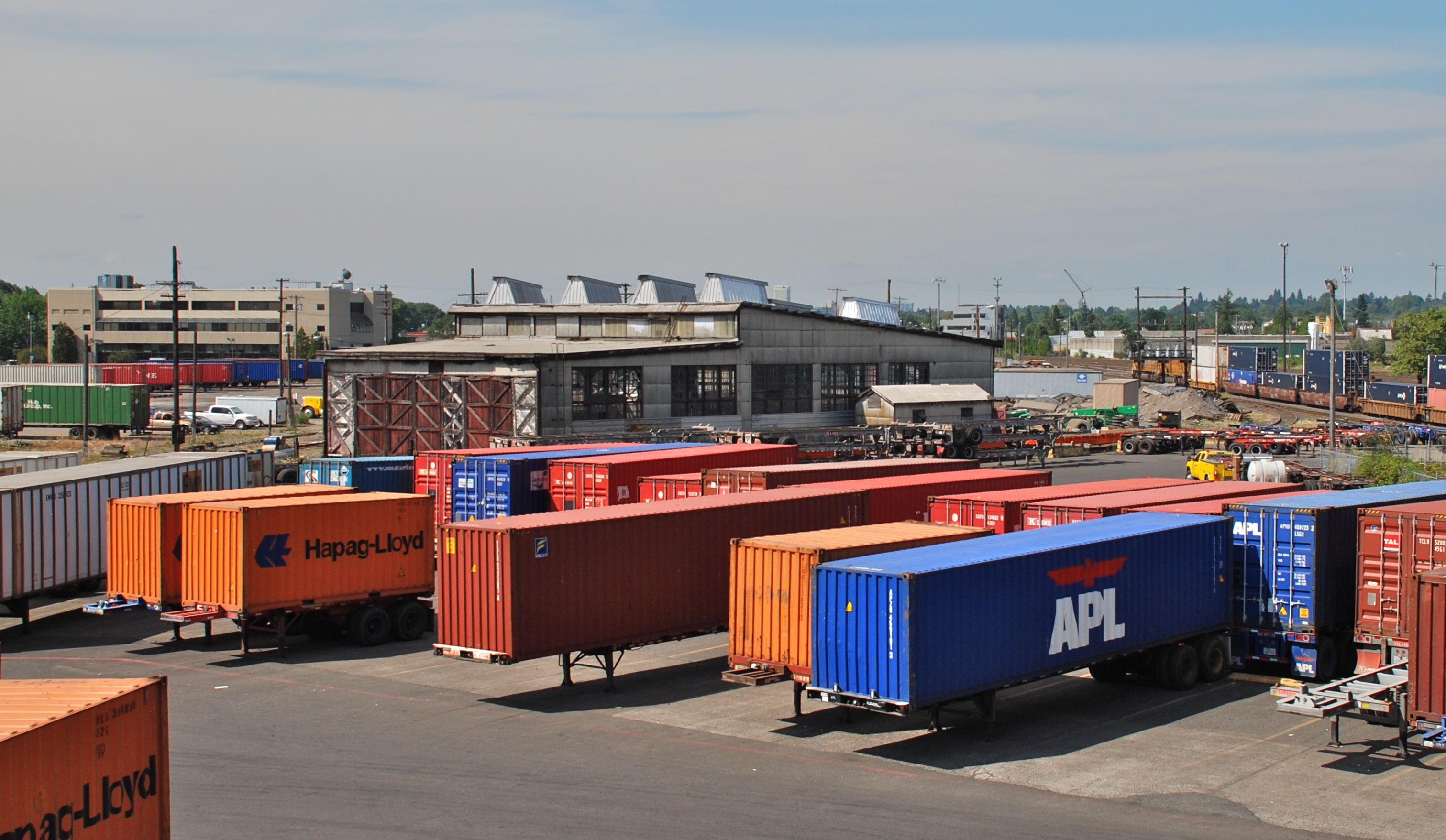 The former Brooklyn Roundhouse (of Southern Pacific, later Union Pacific), in Portland, Oregon, after it was closed and vacated, and about one month before it was demolished. Photo was taken from the Holgate Blvd. viaduct.